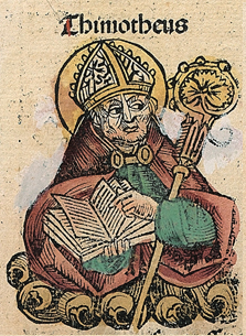 This is a part of a scan of an historical document: Title: Schedelsche Weltchronik or Nuremberg Chronicle